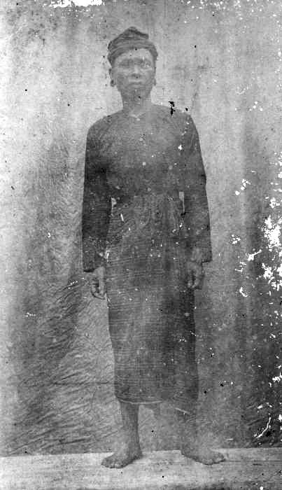 Raden Demang Béhé, head of the Ot-Danom-Dayaks in Ambalu (Upper-Melawi river), Central-Borneo.